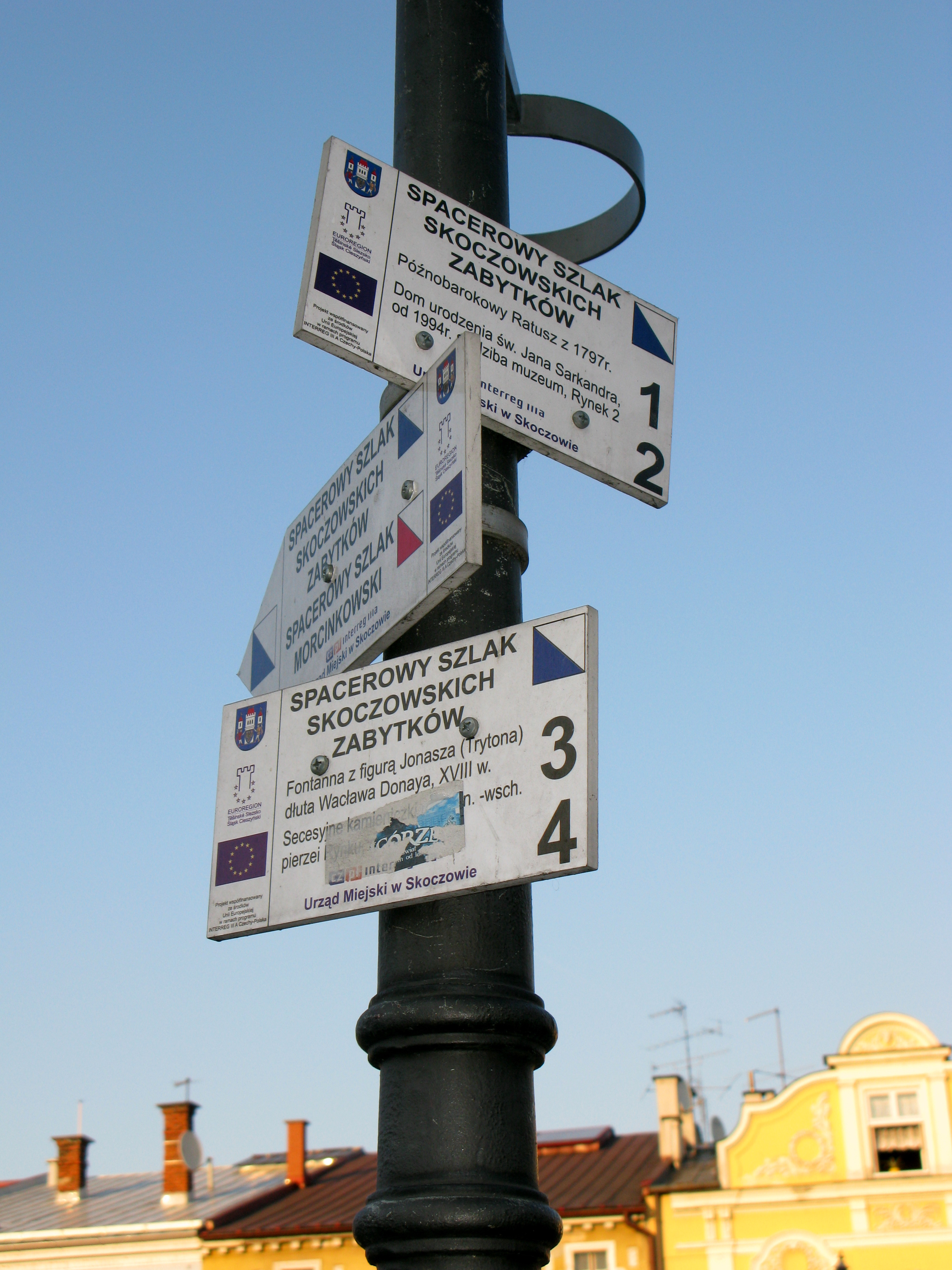 Walking trails signs on the market square in Skoczow